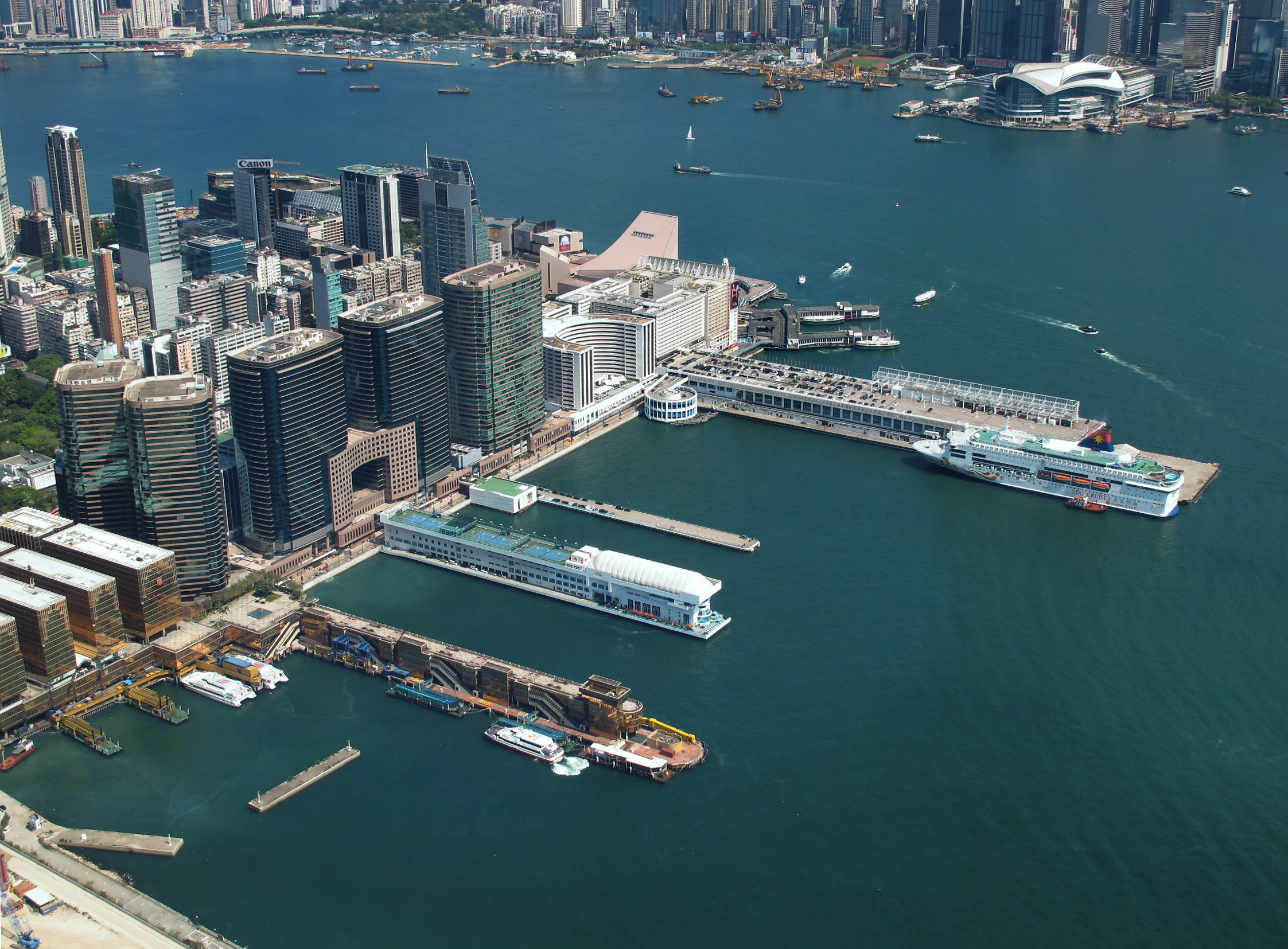 Harbour City Overview 海港城